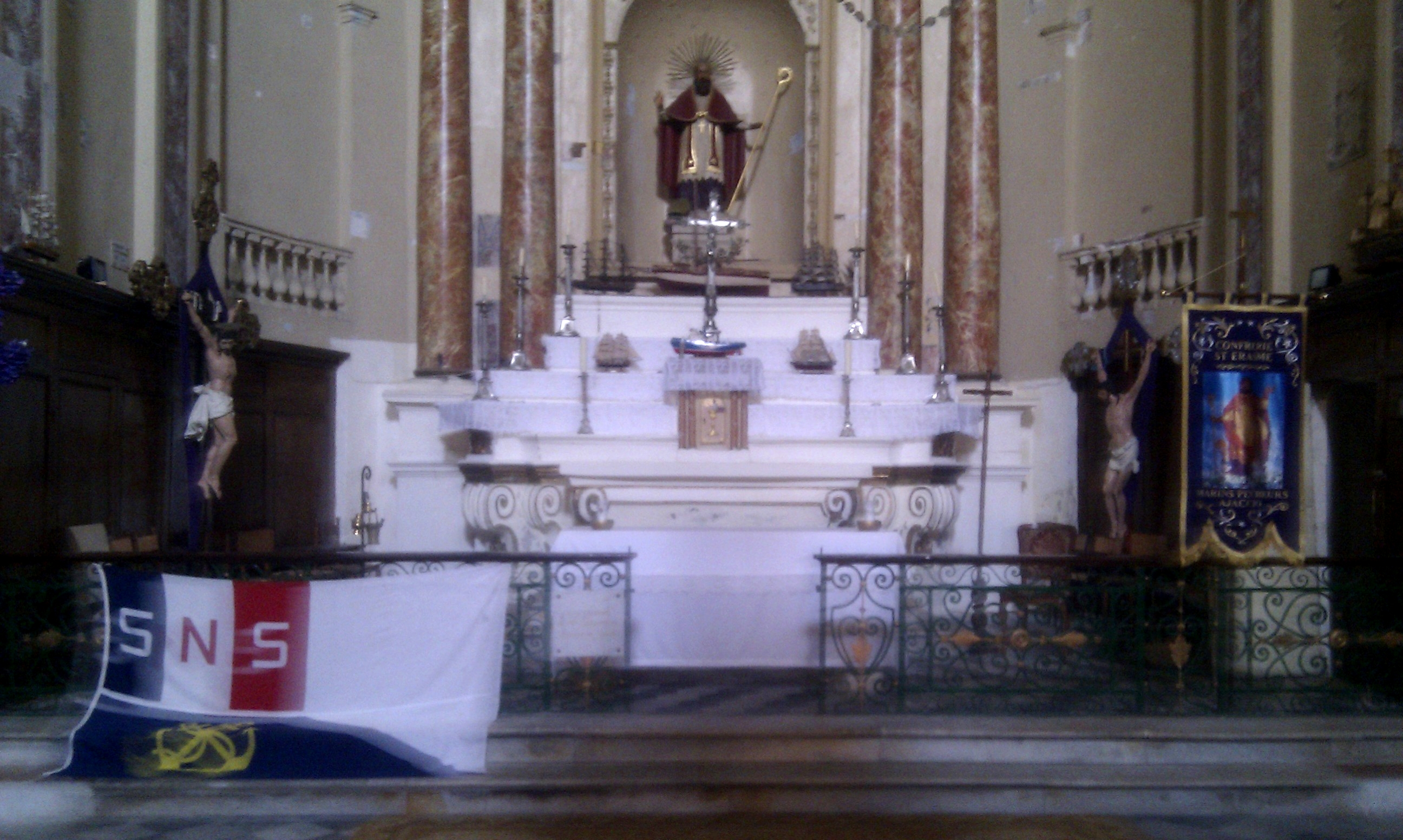 Church of San'Teramu in Ajaccio (Corsica)